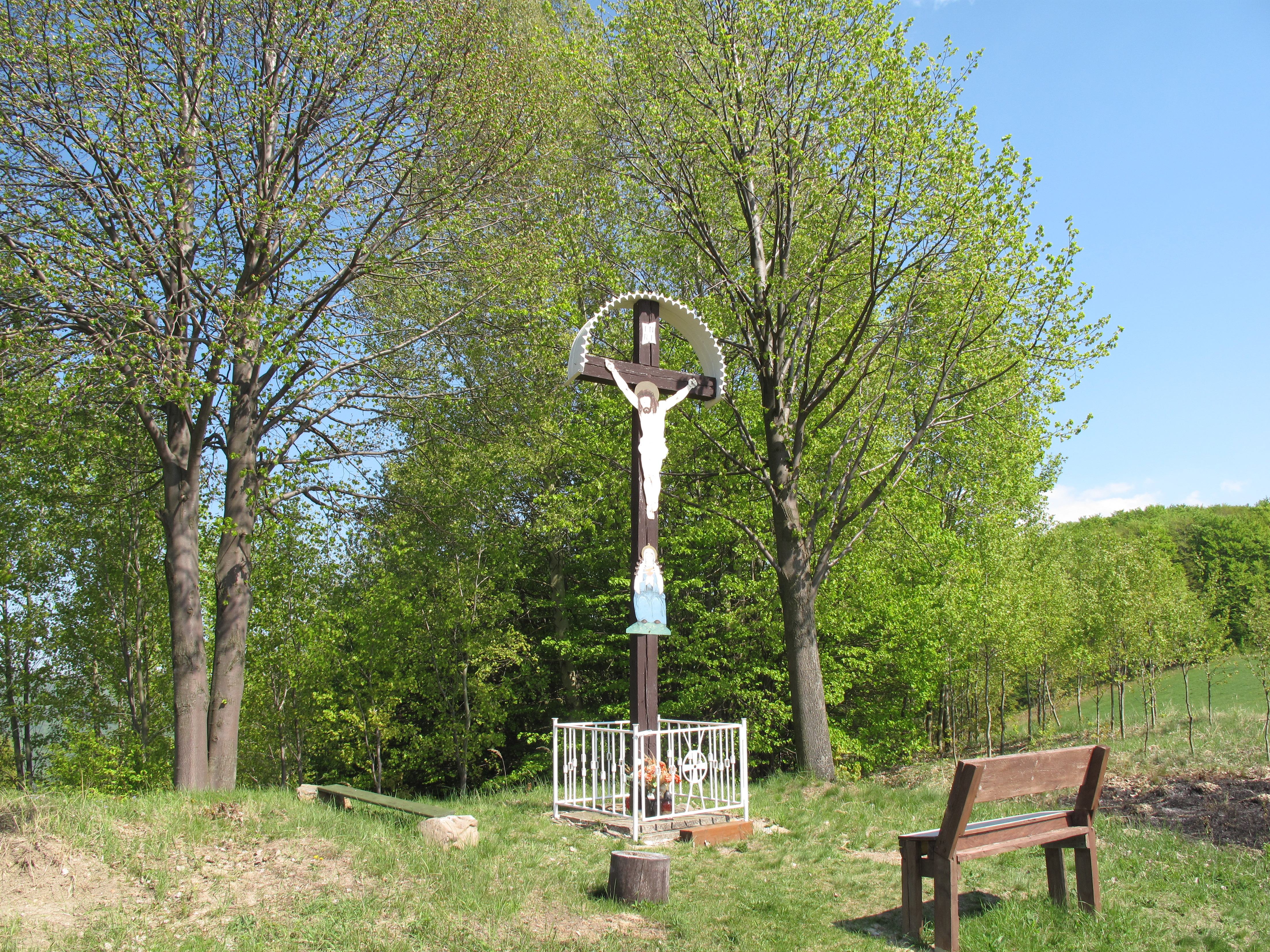 Crucifix of Pitelová. It is commonly known to be symbol of village. It can also be found on the village crest.